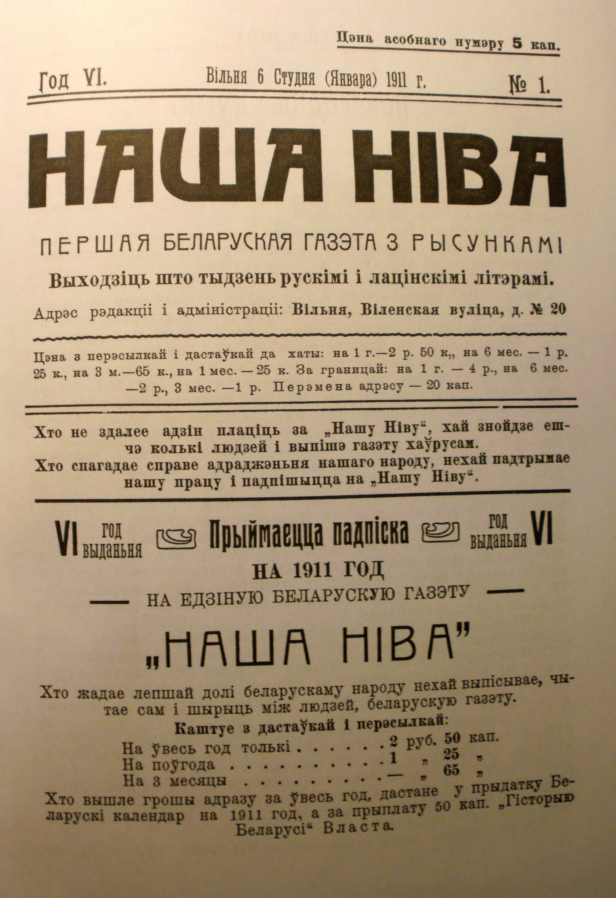 First issue of Naša Niva.